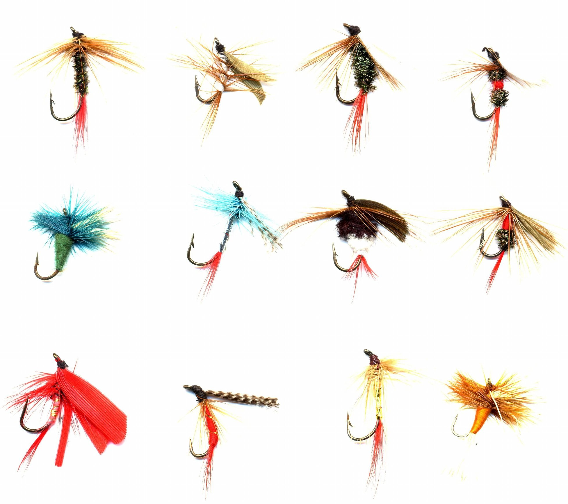 Fly lures